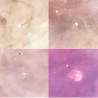 Protoplanetary disks in Orion Nebula. Taken from Hubble photo of Orion Nebula.